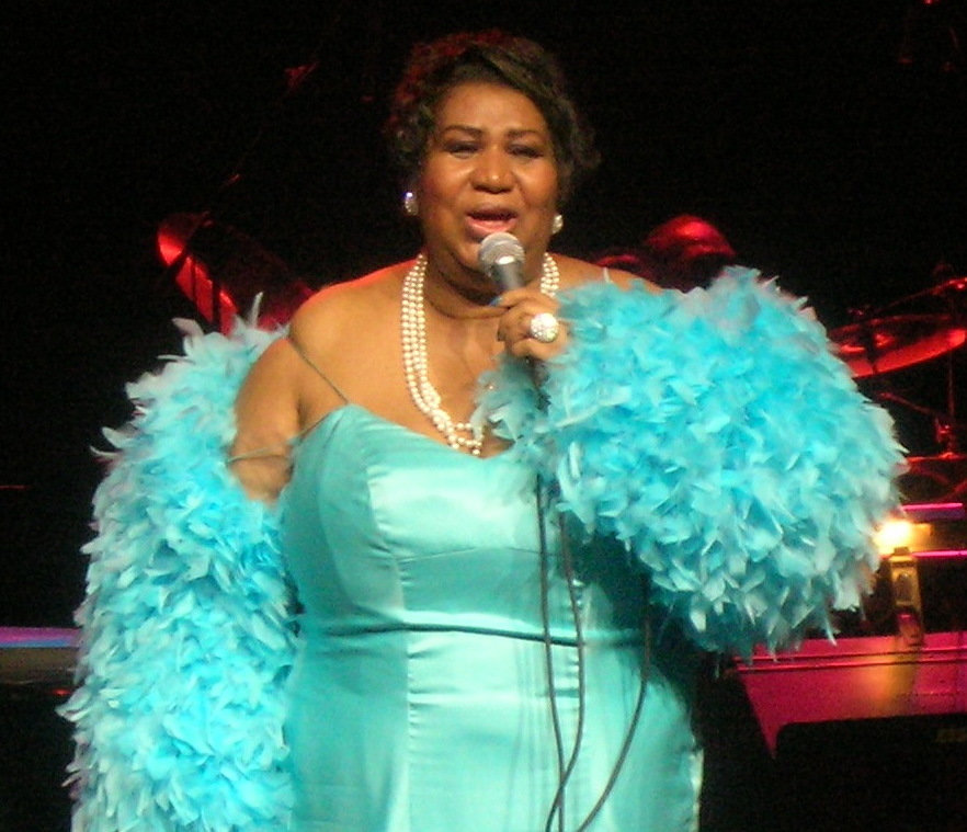 Picture of Aretha Franklin performing at the Nokia Theater in Dallas, Texas, on April 21, 2007. Photo taken by Ryan Arrowsmith.